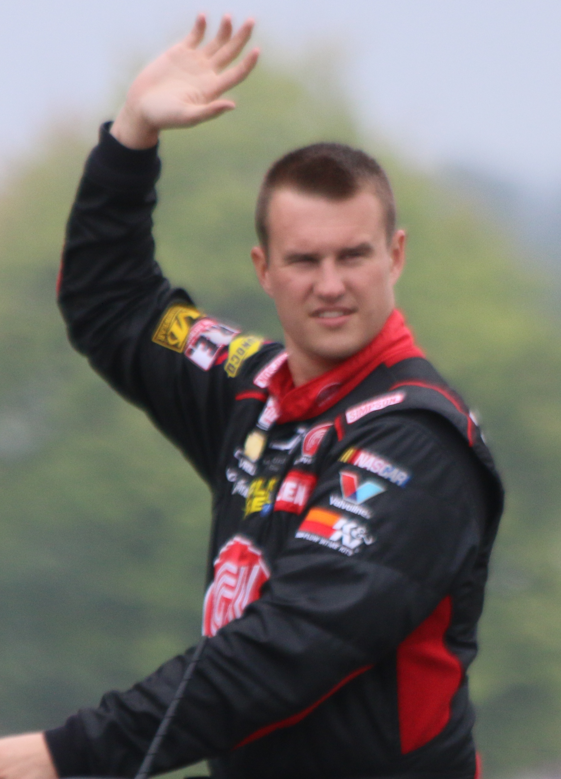 NASCAR driver Ryan Preece at Road America